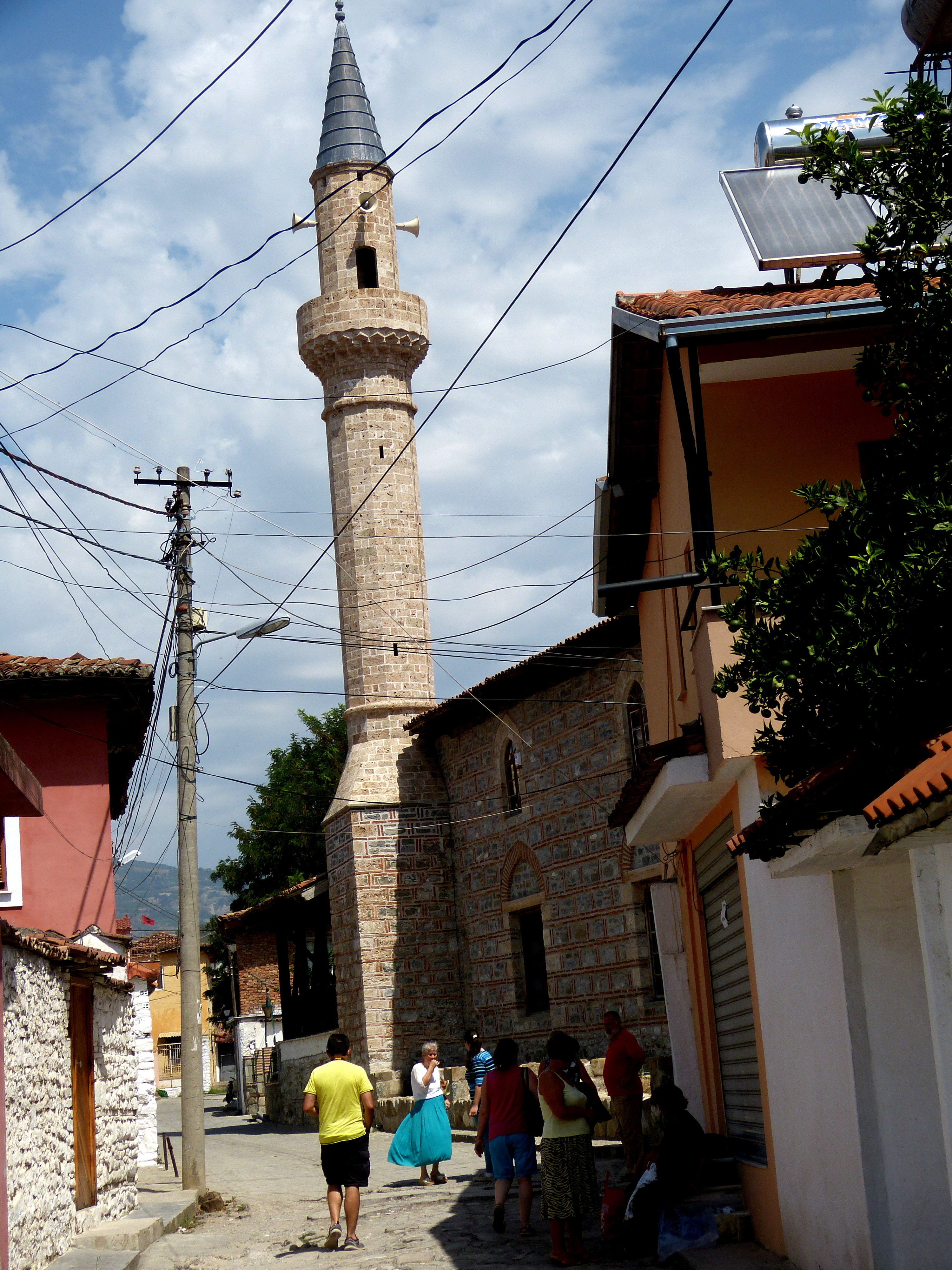 Elbasan ( Albania ). Mbret-Mosque ( 1492 ): Minaret.